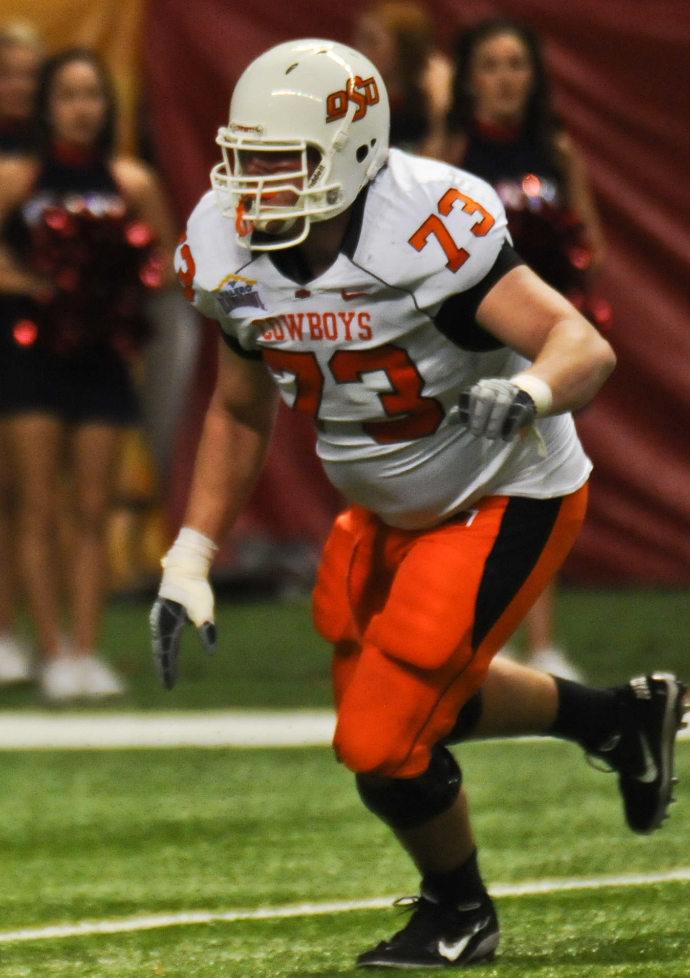 Brandon Weeden and Levy Adcock of the Oklahoma State Cowboys.